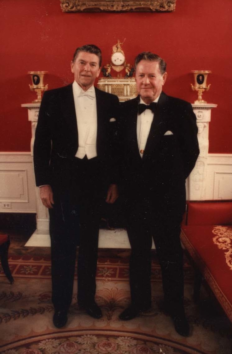 President Ronald Reagan and Nancy Reagan (1) President Ronald Reagan and Neil Reagan (2-4) Formal Inaugural Photo